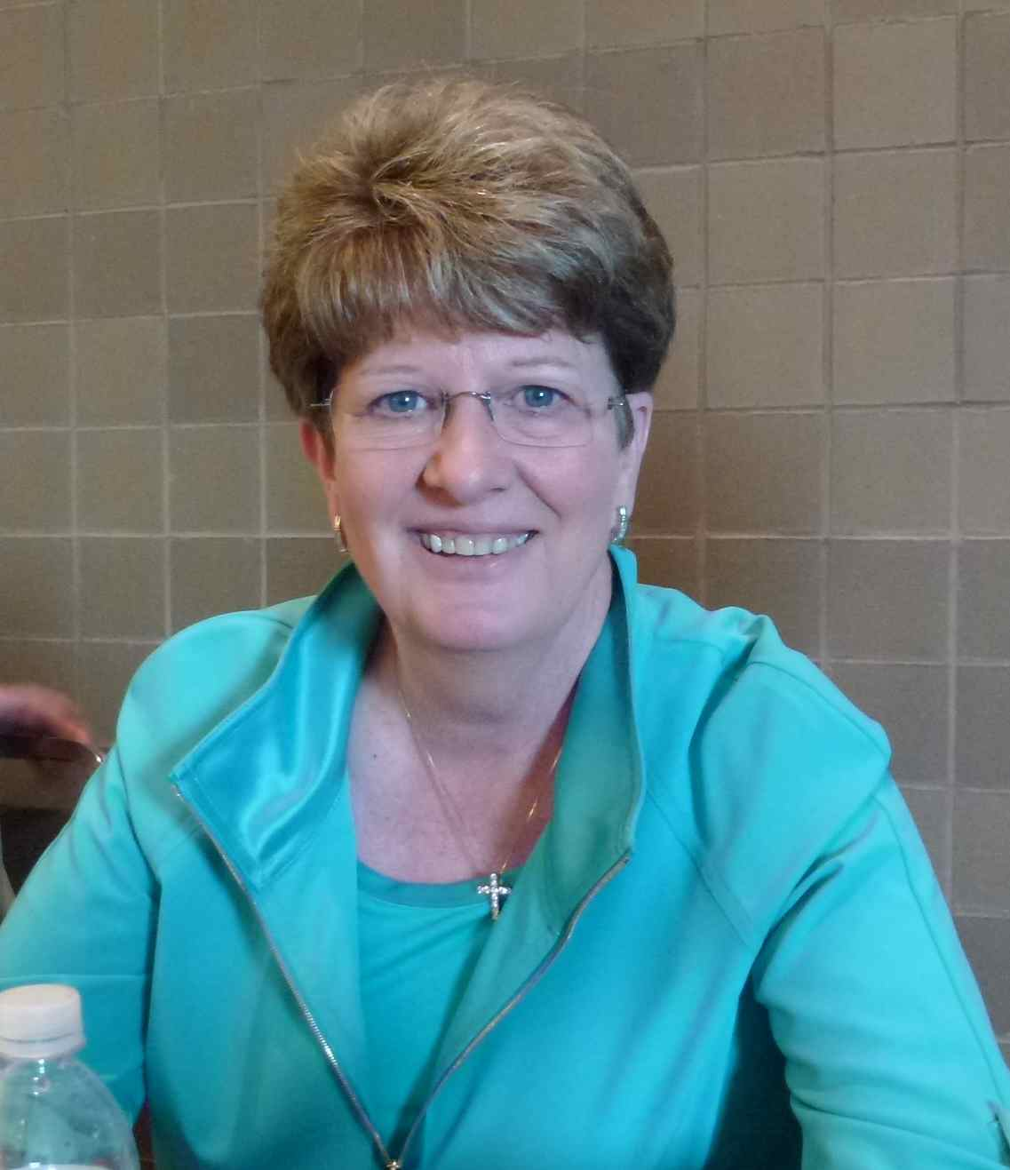 Marsha Sharp former head coach of Texas Tech University's women's basketball team. Taken at the 2103 WBCA Convention in New Orleans